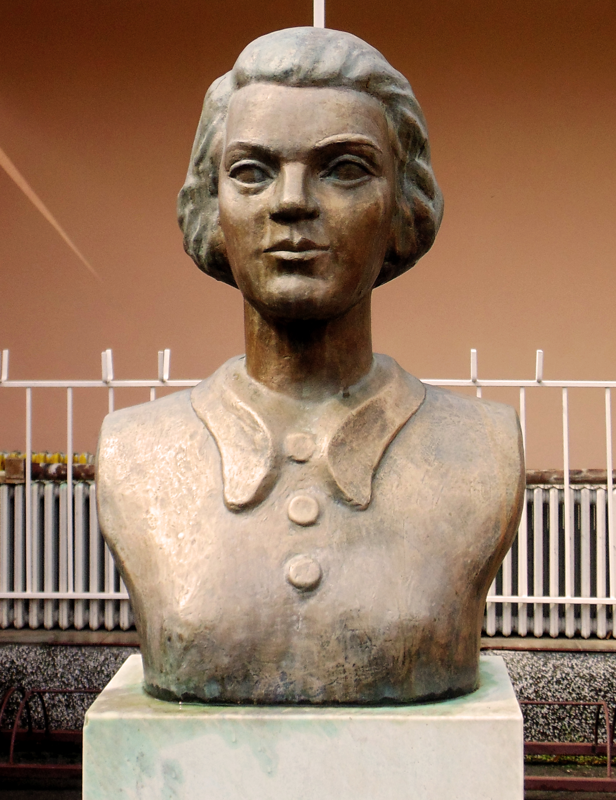 Bust of Lidija Aldan, the communist whod died in WW2